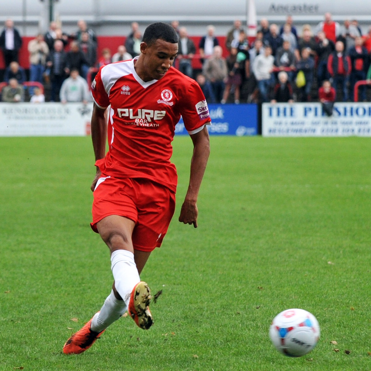 Guthrie